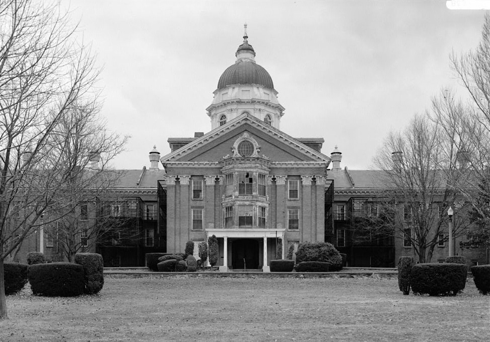 Taunton State Hospital, Main Building (1987)